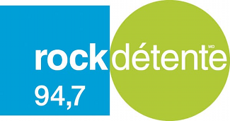 Former logo of Candian radio station CHEY-FM used from 2004 to 2011